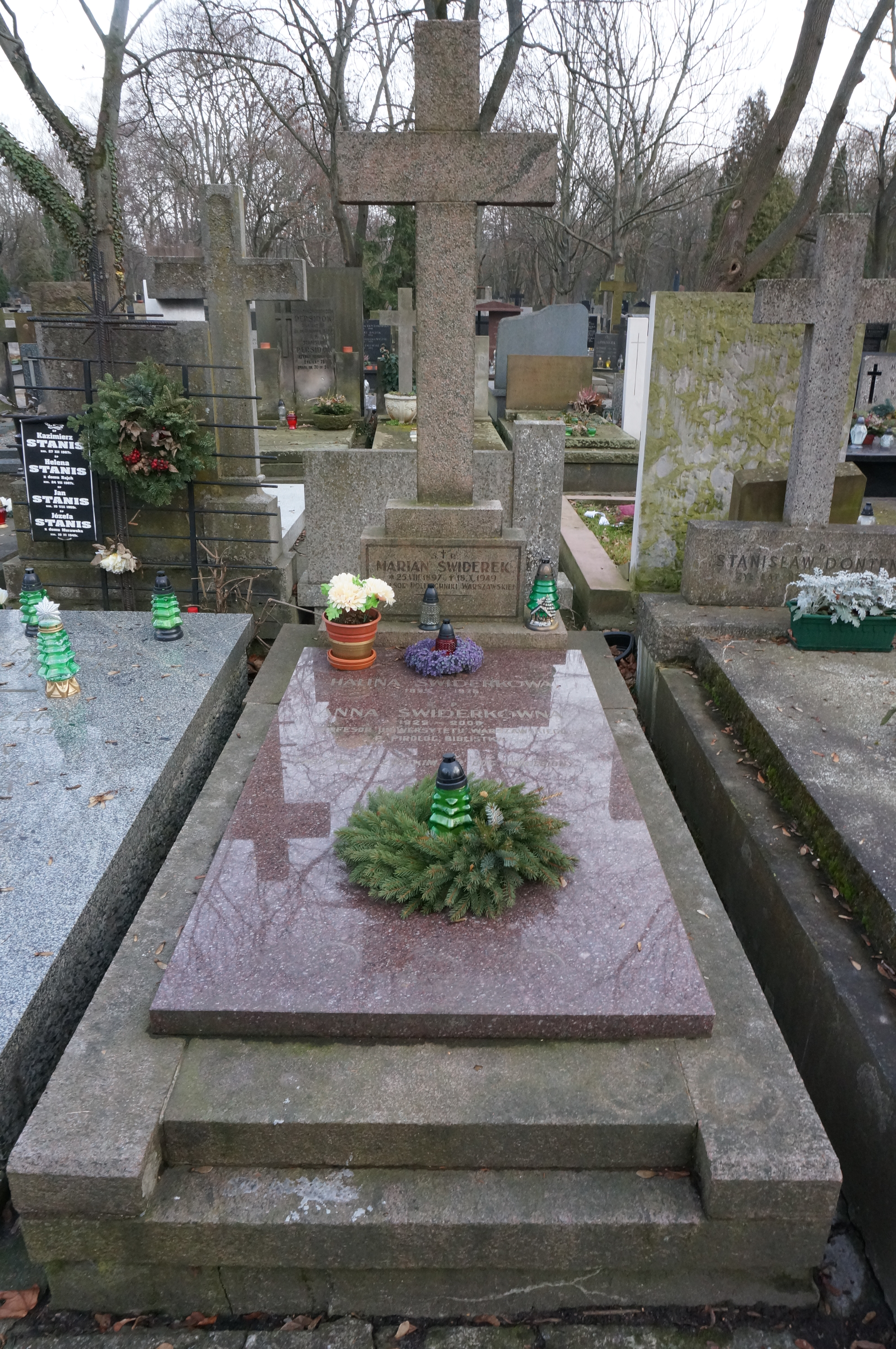 The grave of Anna Świderkówna at the Powązki Cemetery (section 242, row 4, grave 13)